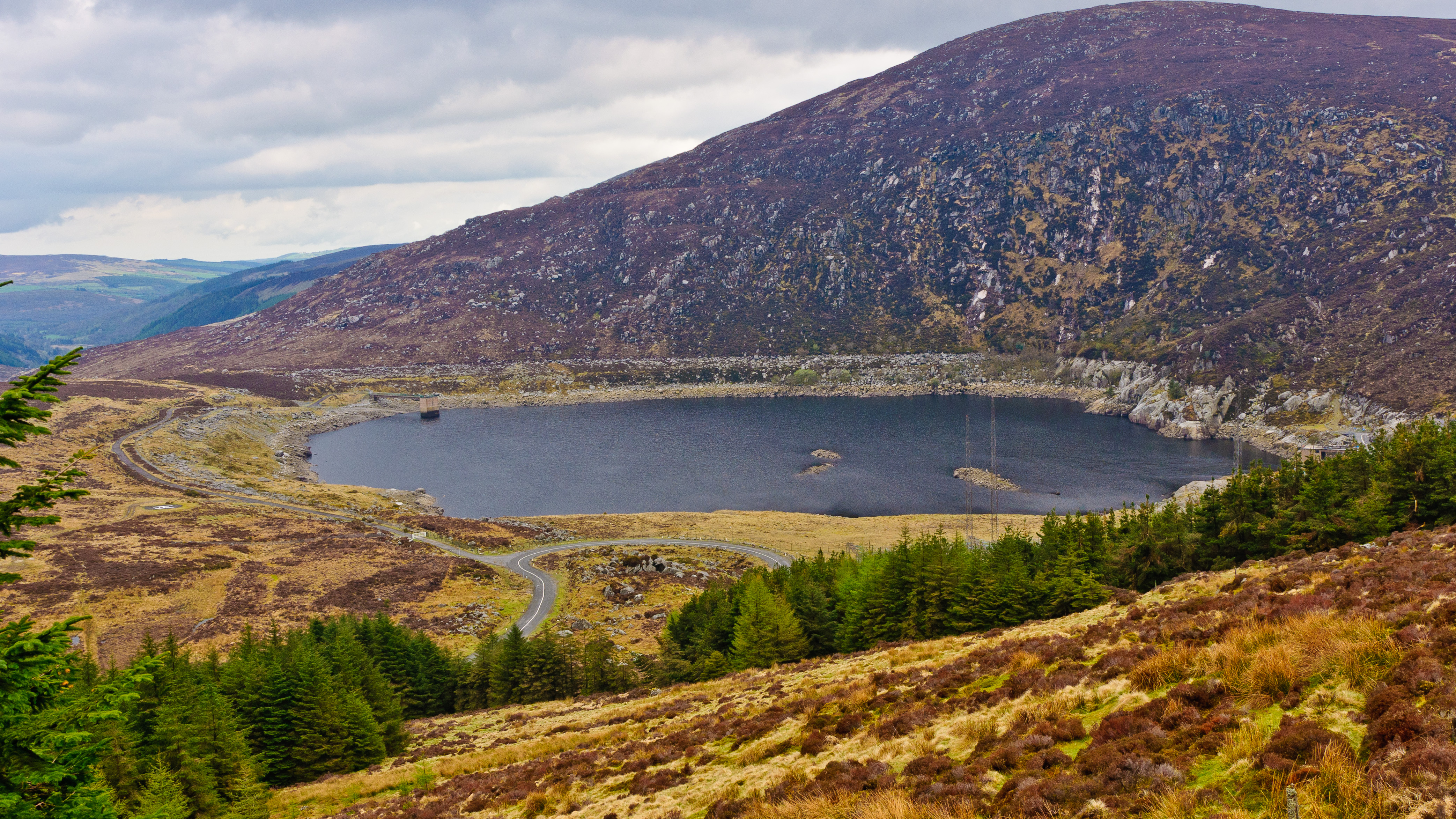 Lough Nahanagan, a corrie lake near the Wicklow Gap, County Wicklow, Ireland. It acts as the lower reservoir of the Turlough Hill pumped-storage hydroelectricity scheme.